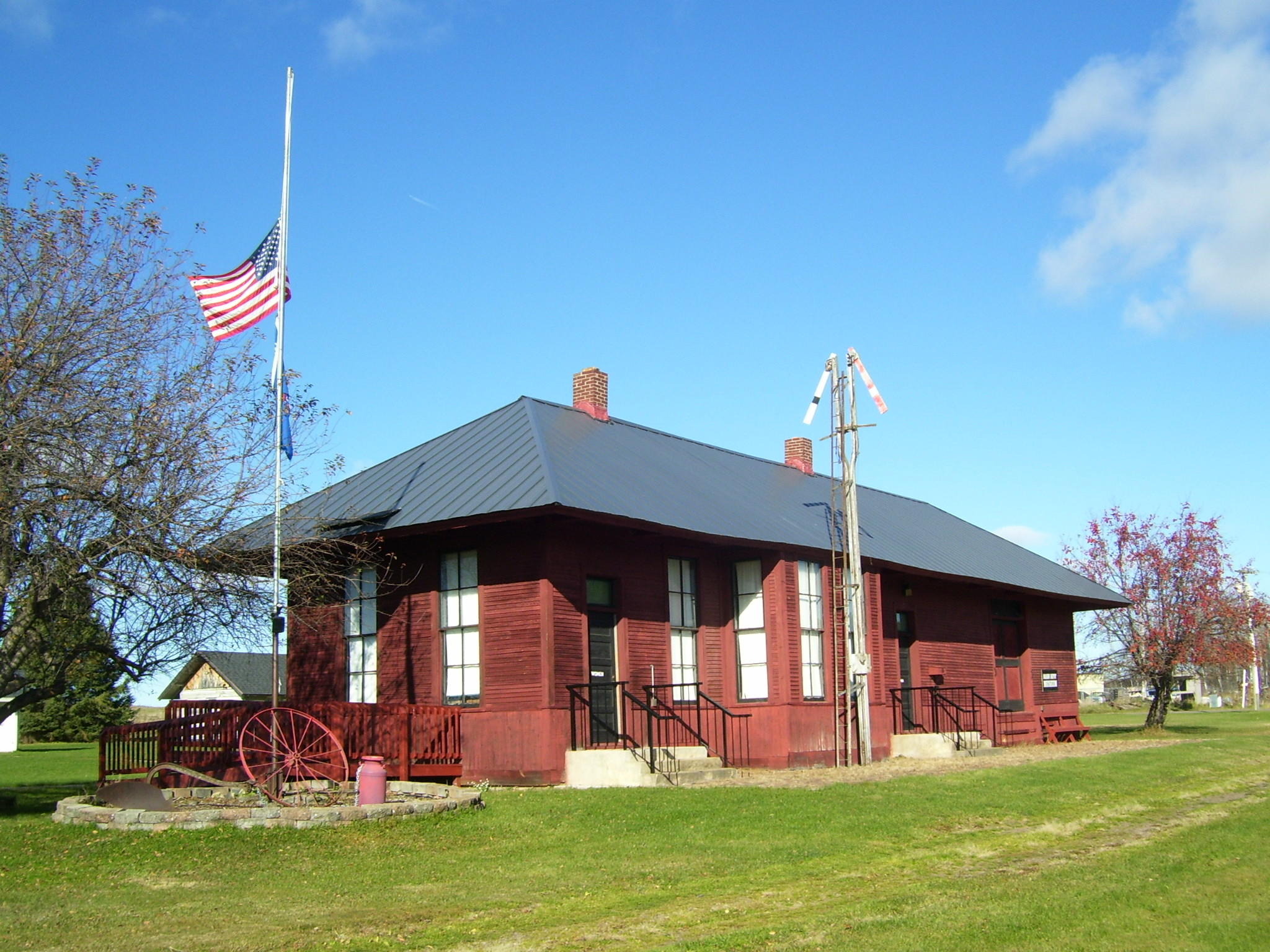 The train depot in Mason, Wisconsin, now a museum operated by the Mason Area Historical Society.